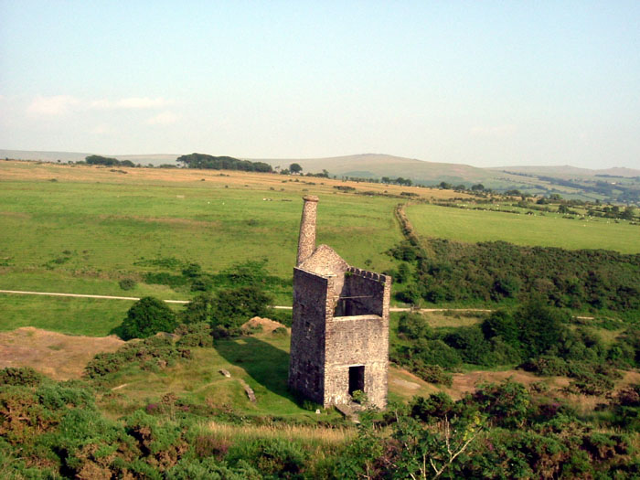 Wheal Betsy engine house, alongside the A386 road between Tavistock and Okehampton, Dartmoor, Devon. Early evening 15 July 2005 (or a few days before).